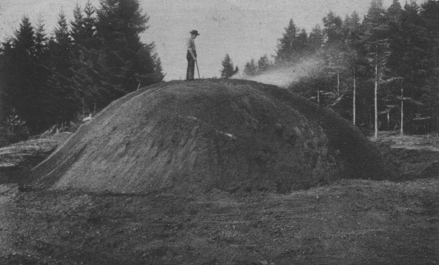 Ignited pile